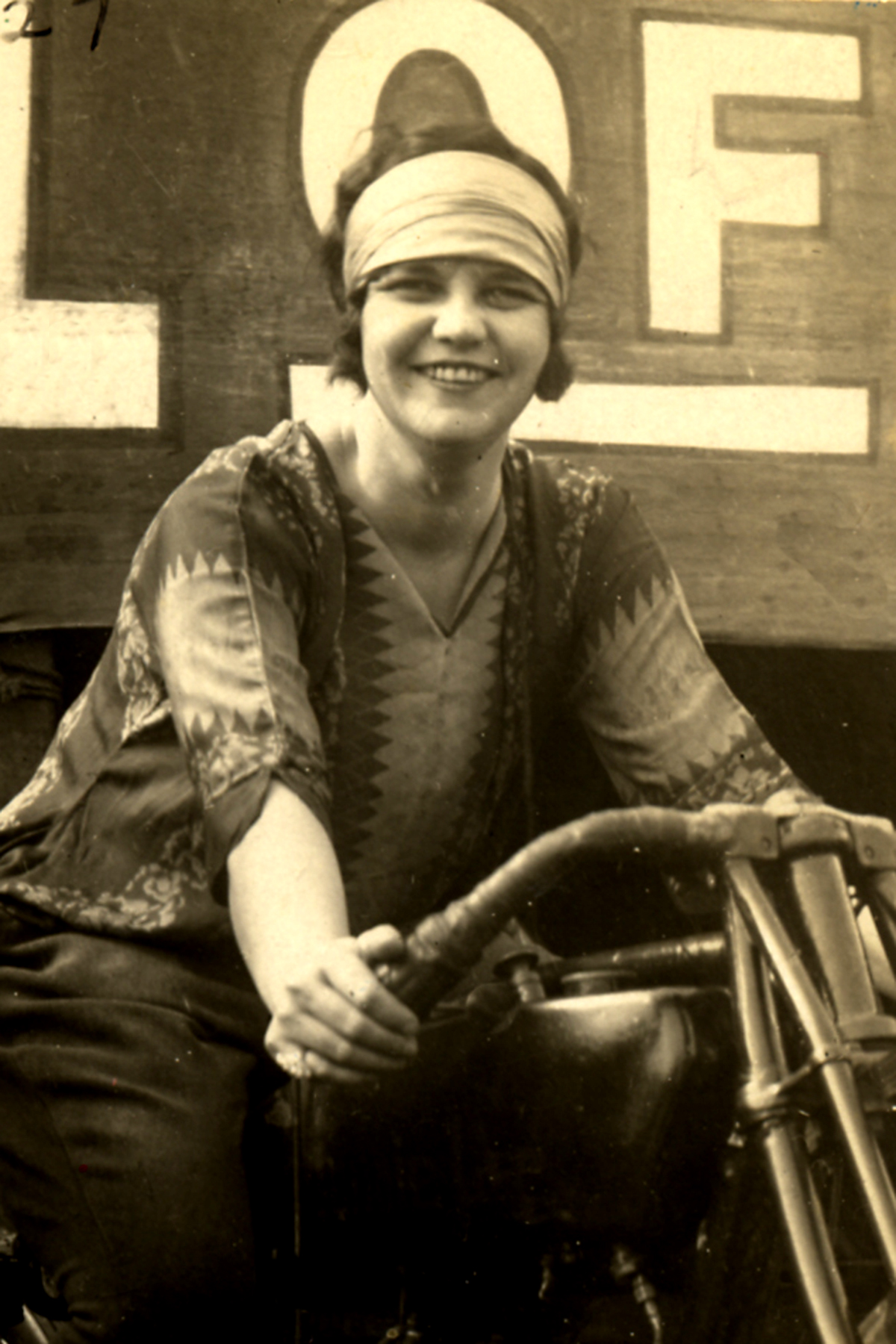 Hazel Marion Eaton Watkins performing with Hager's Wall of Death. Photo was latered published in the Portland Sunday Telegram, March 12, 1939 with permission by Hazel Eaton Reis.